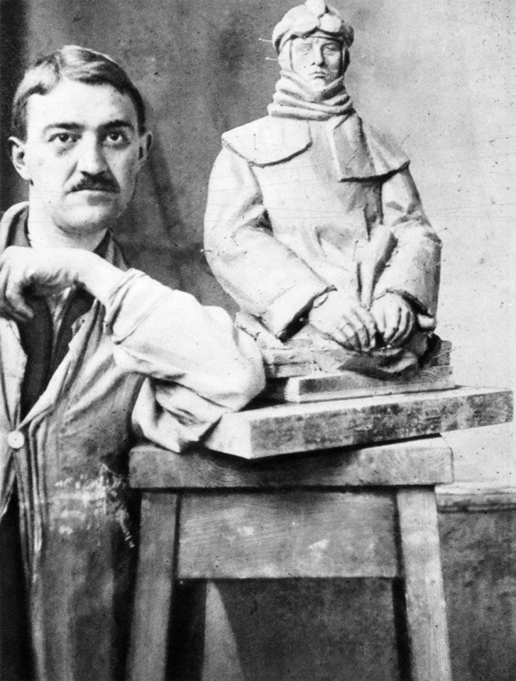 Jan Štursa (1880-1925), Czech sculptor. Jihlava, 1915